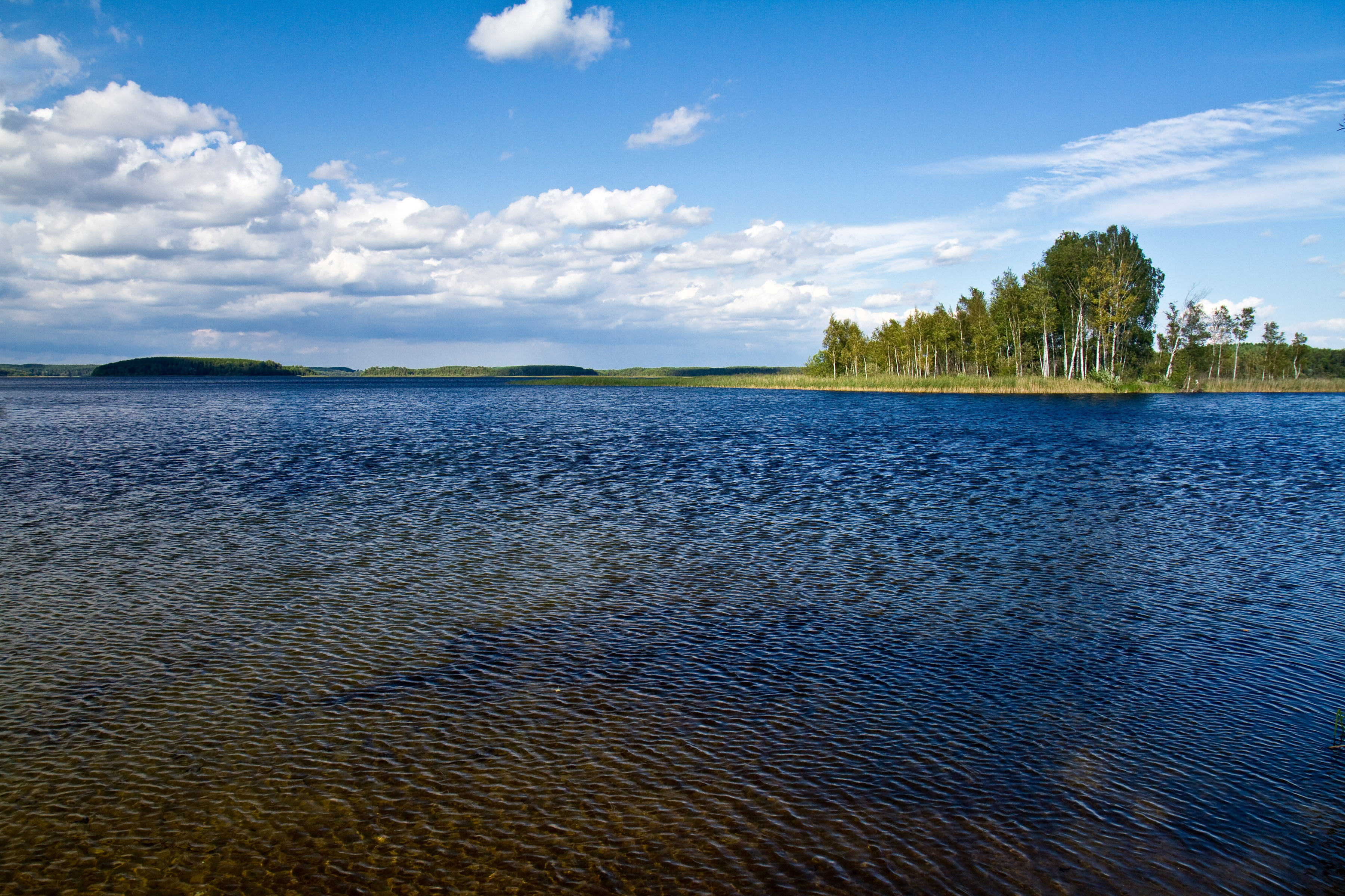 Strusta Lake. Brasłau district, Viciebsk province, Belarus.